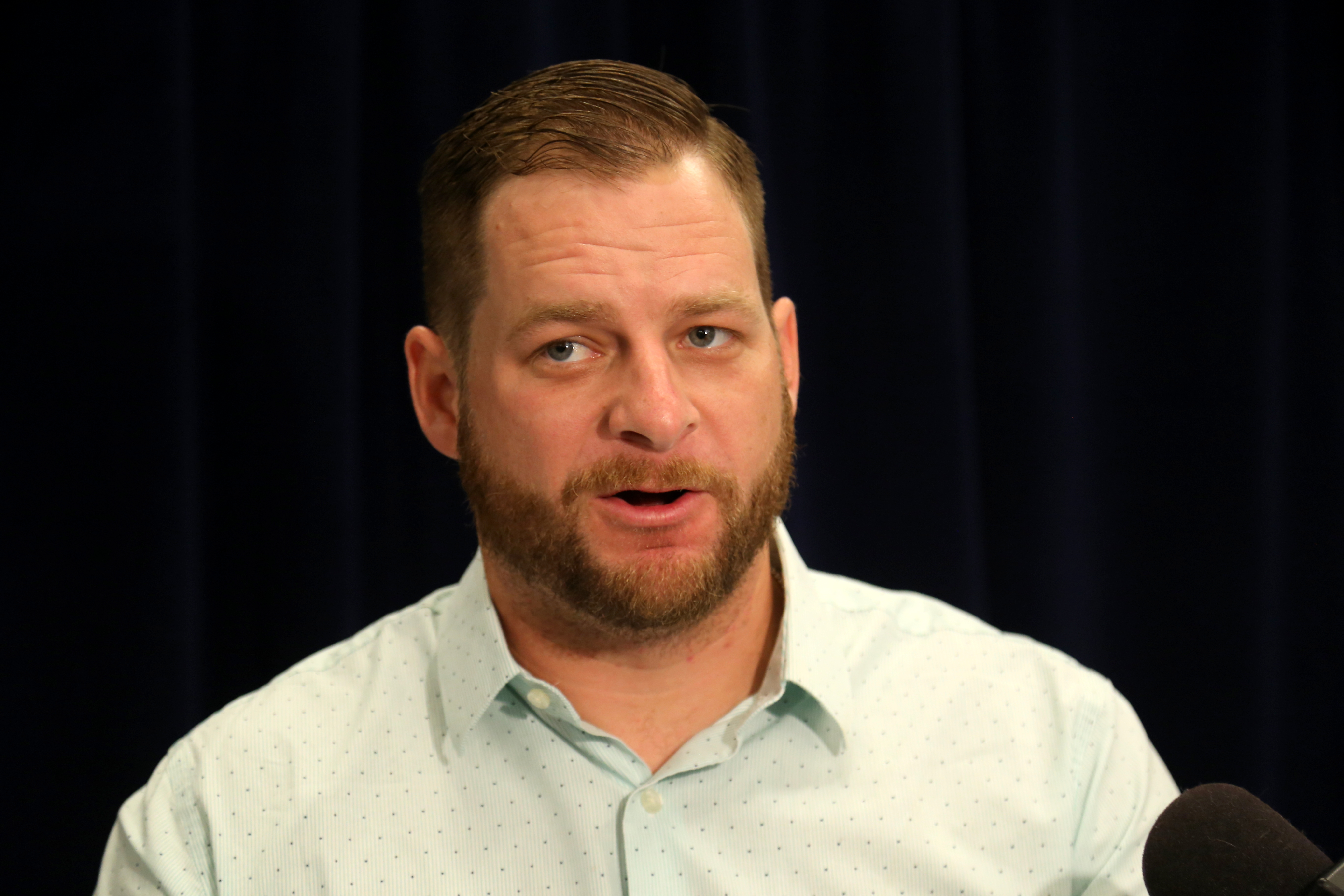 Athletics catcher Stephen Vogt talks to reporters at 2016 All-Star Game availability.